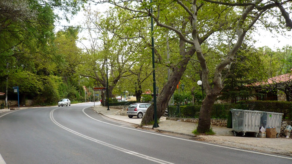 The above picture depicts the Agiou Timotheou Square at Penteli.